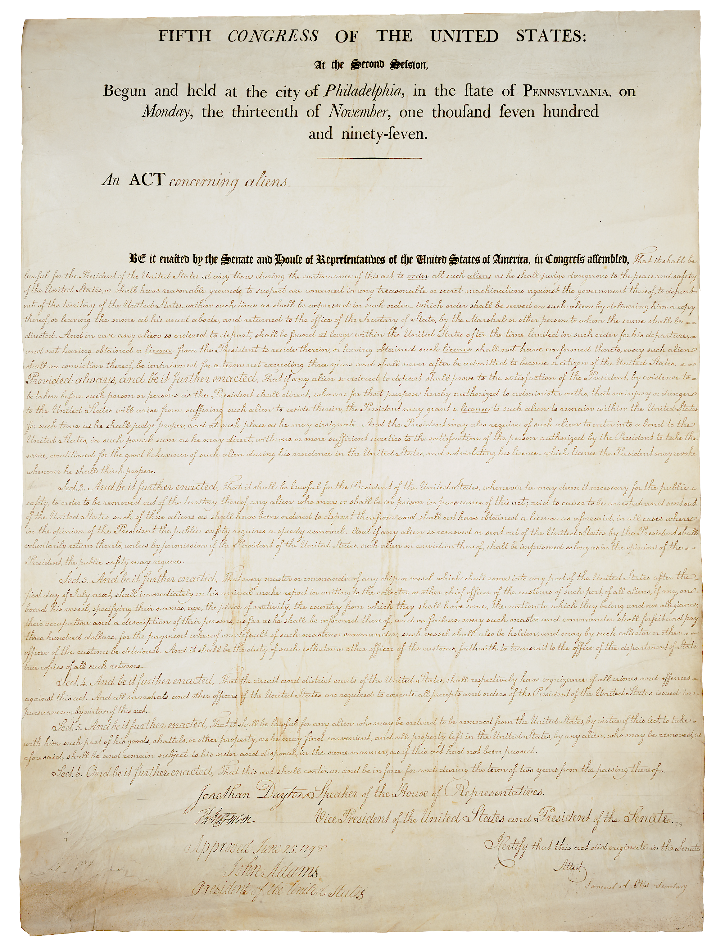 Here is a higher resolution copy which comes from the same source. I have straightened the page, sharpened it, and darkened the text. Also, I transformed title, which appears warped in the original image (I assume it was not laid completely flat when the image was taken). The previous version of this document (File:Alien_and_Sedition_Acts_(1798).jpg) is now deprecated; I have chosen so save this copy as a PNG, as JPEG compression artifacts are unsuitable for rendering text.